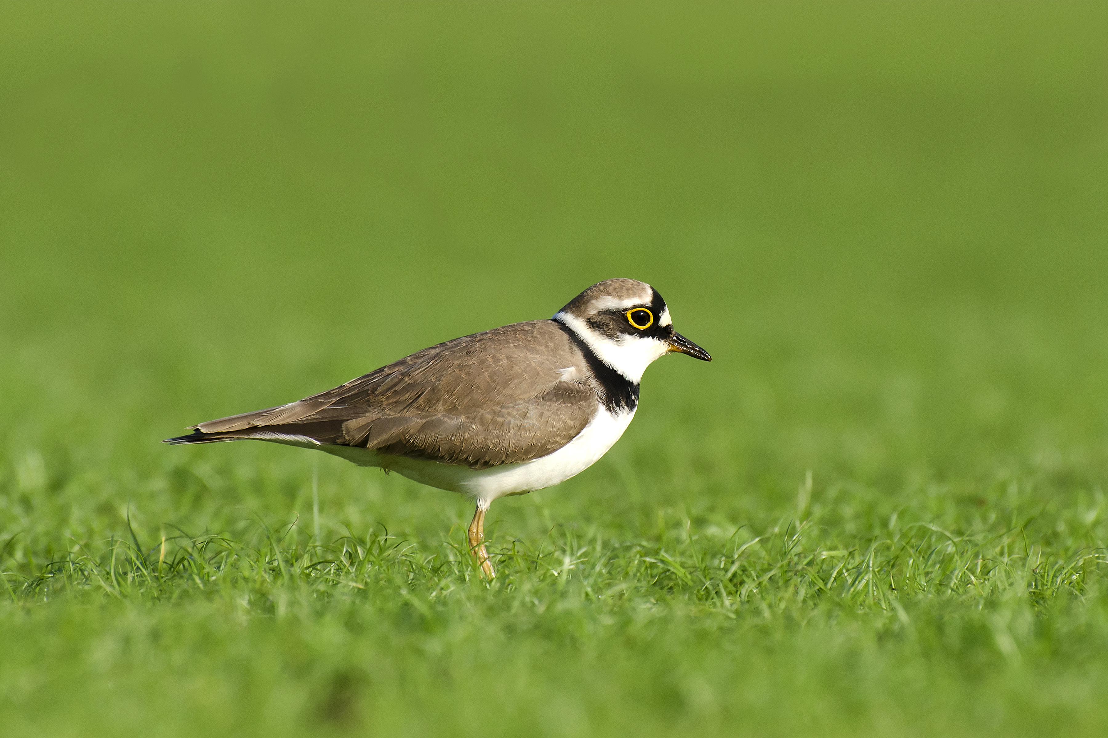 Little Ringed Plover